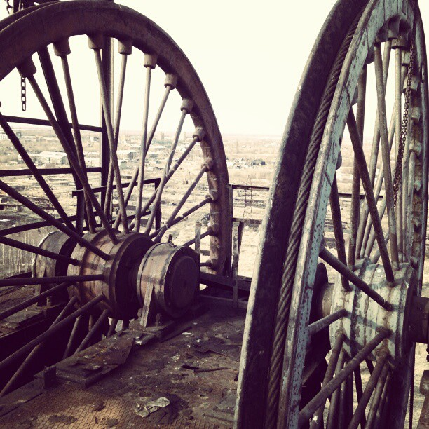 Russia, Komi Republic, Inta, "Glubokaya", shaft